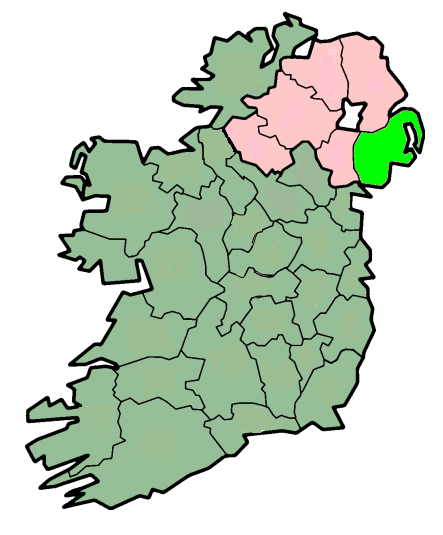 The location of County Down (Contae an Dúin) (light green) within Northern Ireland (pink) in the island of Ireland (green)